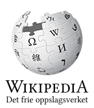 Wikipedia logo 2.0